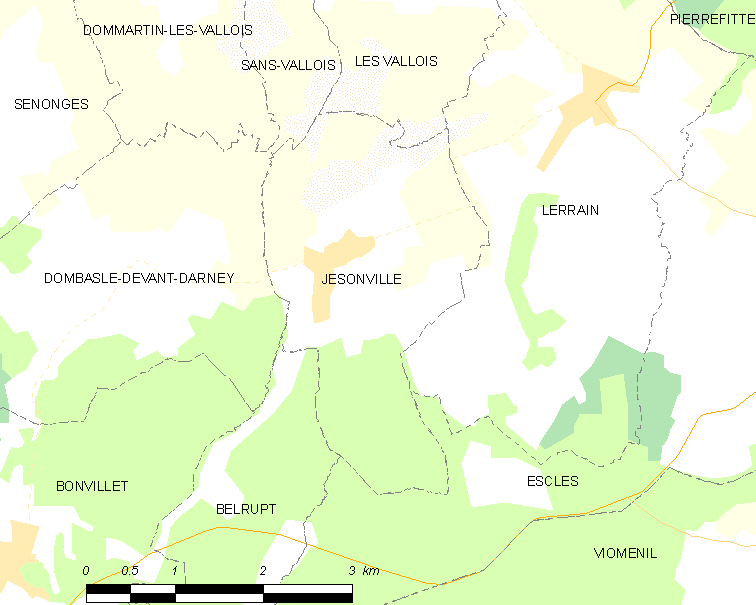 Map of French municipality Jésonville